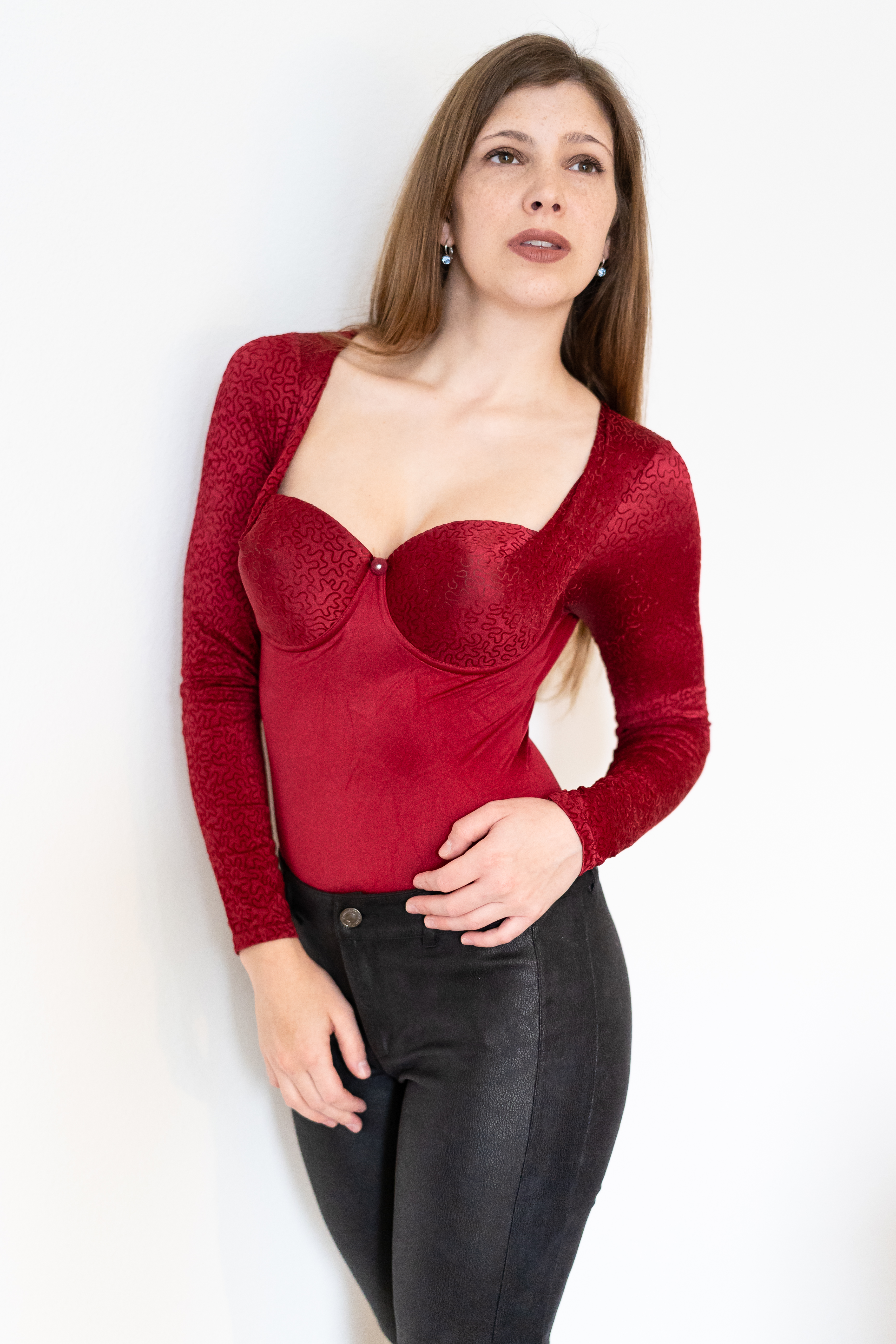 Front view of a red evening bodysuit with integrated bra. Also known as body or shirtbody for evening wear. Worn with low riding pants. Standing pose is preferred over the image "Red evening bodysuit with integrated bra - Front - modeled by Marina Daschner". But this here is high ISO and focus on the eyes was missed, but shifted more towards the defining bra part of the bodysuit. Image taken with available light. Main light source was a curtain less balcony door/window on an overcast day.